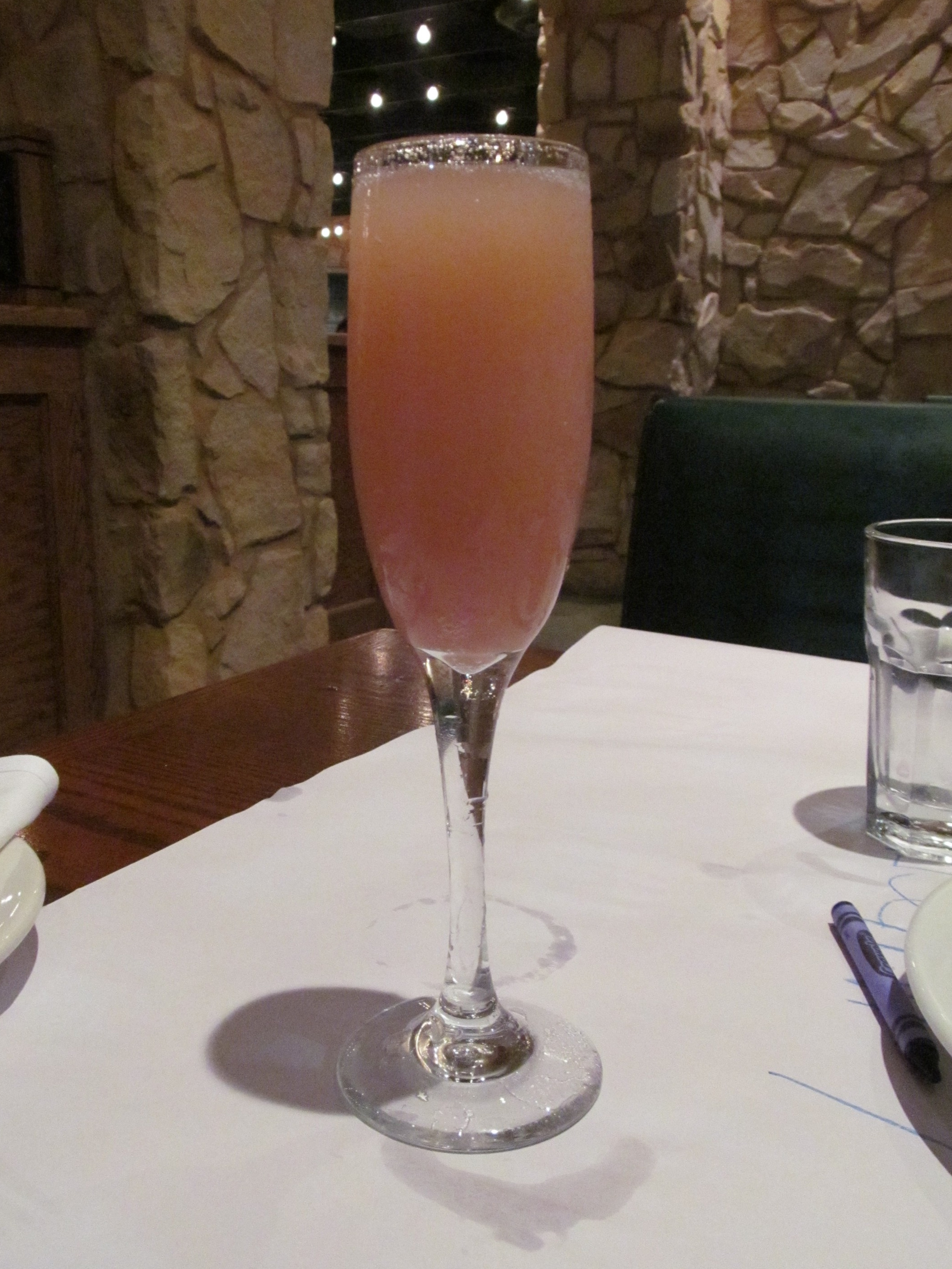 Bellini Cipriani, Macaroni Grill, Dunwoody Georgia